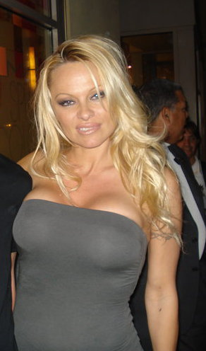 Pamela Anderson